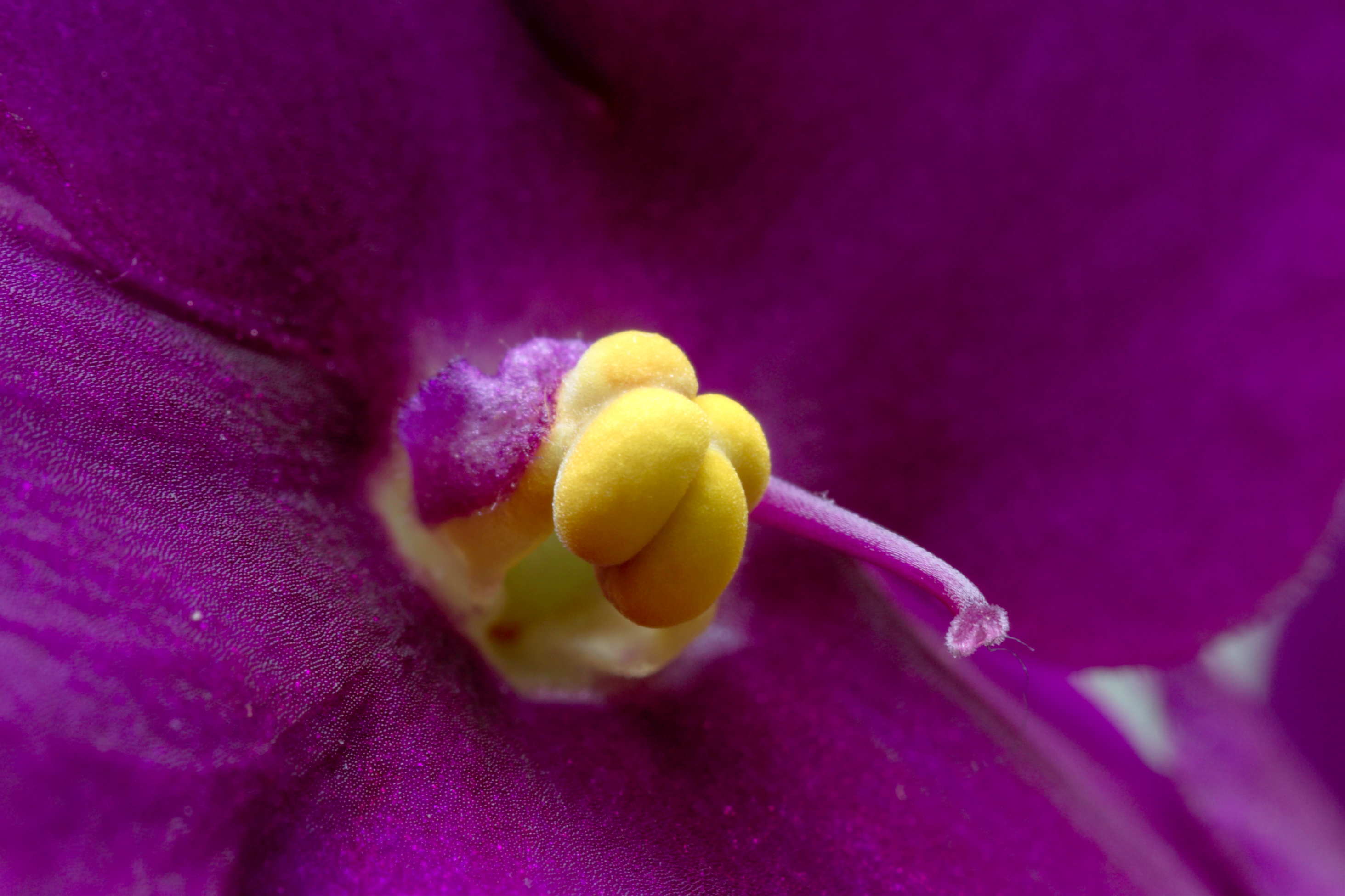 Close-up of a Saintpaulia ionantha flower